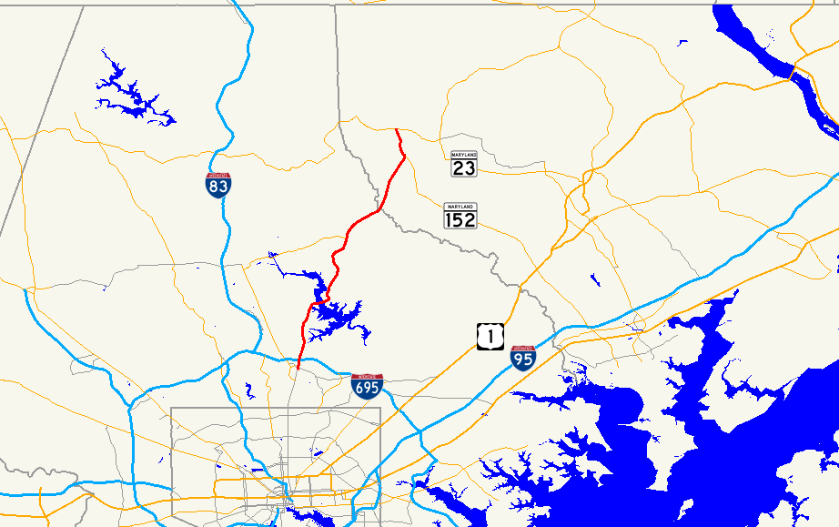 Map of Maryland Route 146